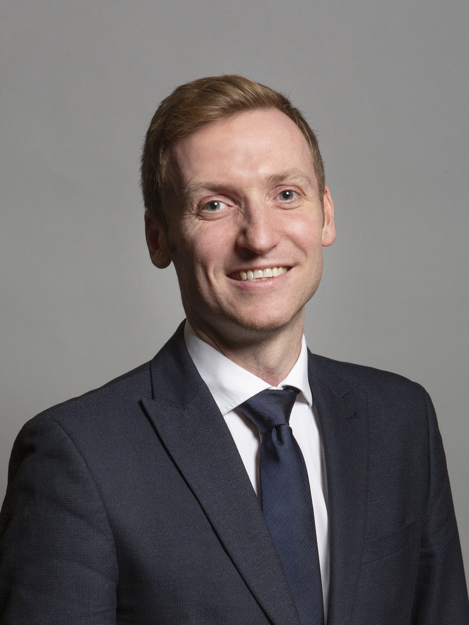 Official portrait of Lee Rowley MP 3×4 portrait of Lee Rowley